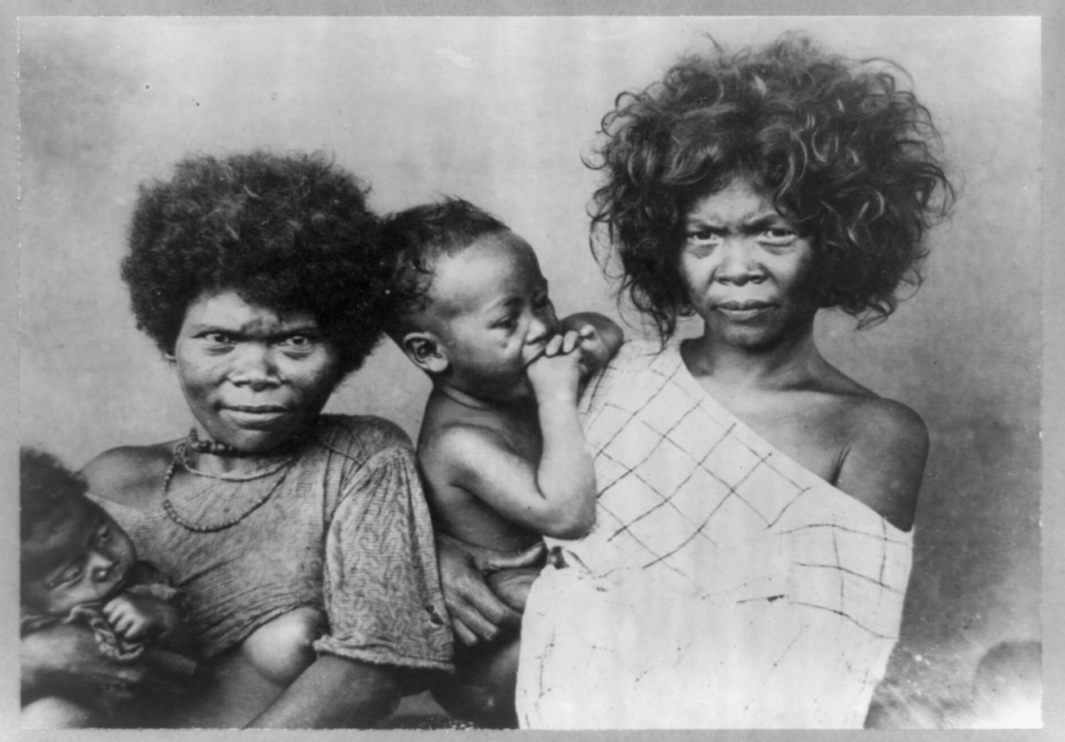 Head-and-shoulders portrait of two Negrito women, each holding a baby, Philippine Islands